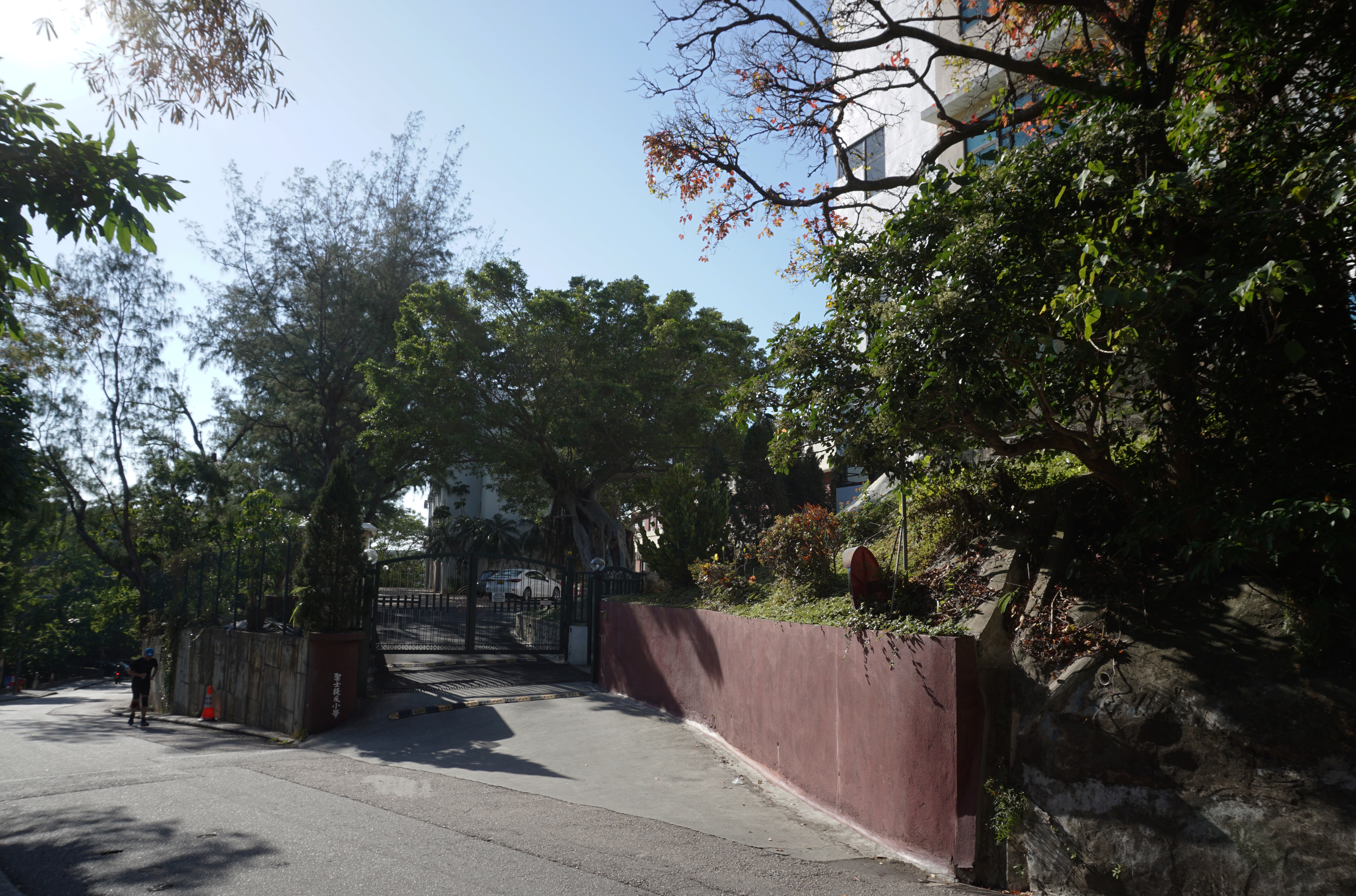 St. Stephen's College Preparatory School in Stanley, Hong Kong.